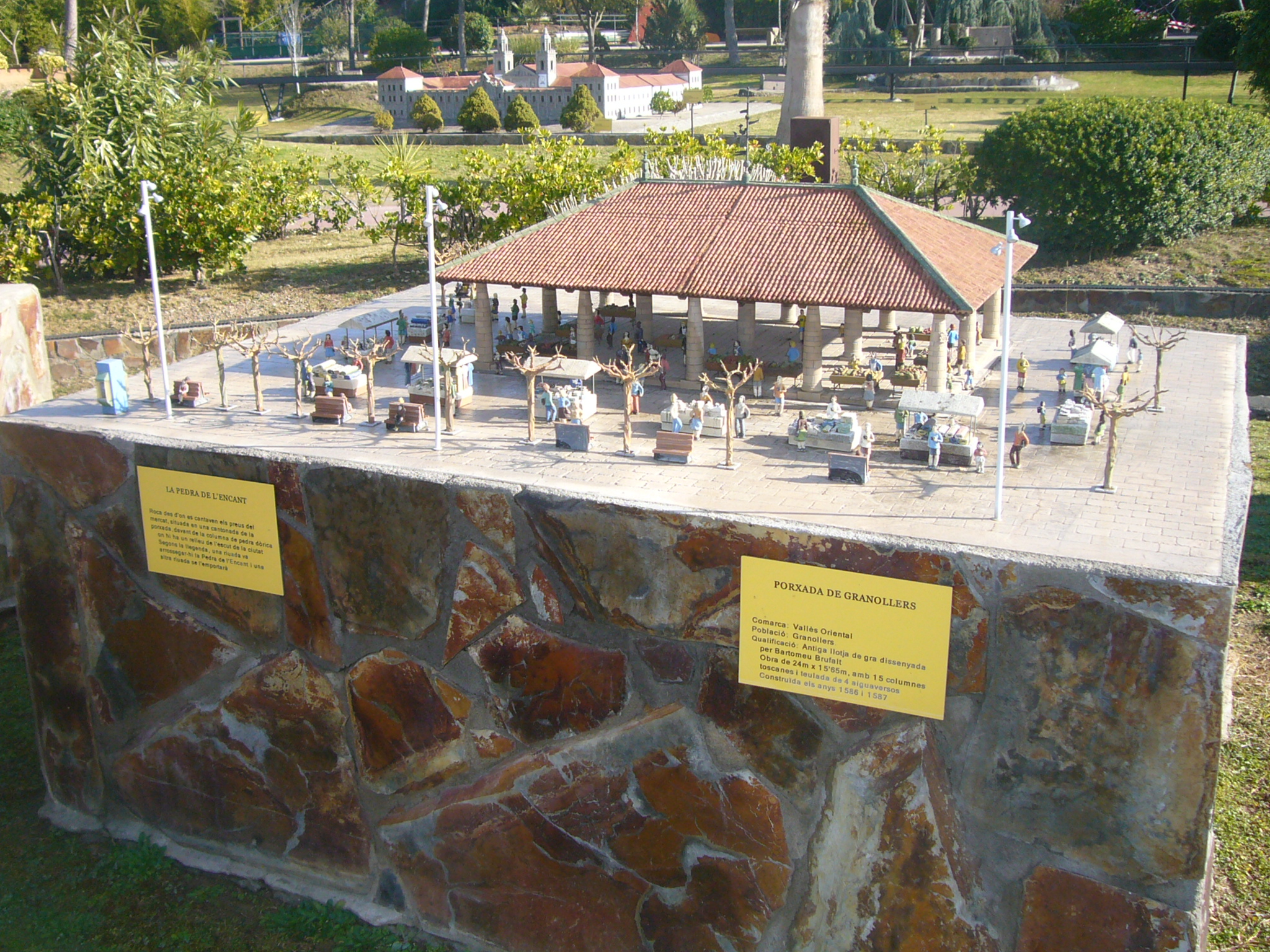 Scale model at the "Catalunya en Miniatura" miniature park : Porxada de Granollers